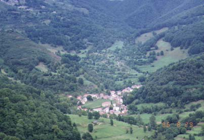 Photo made from "la pica la cruz"